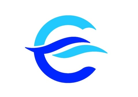 Flag of Etajima Hiroshima